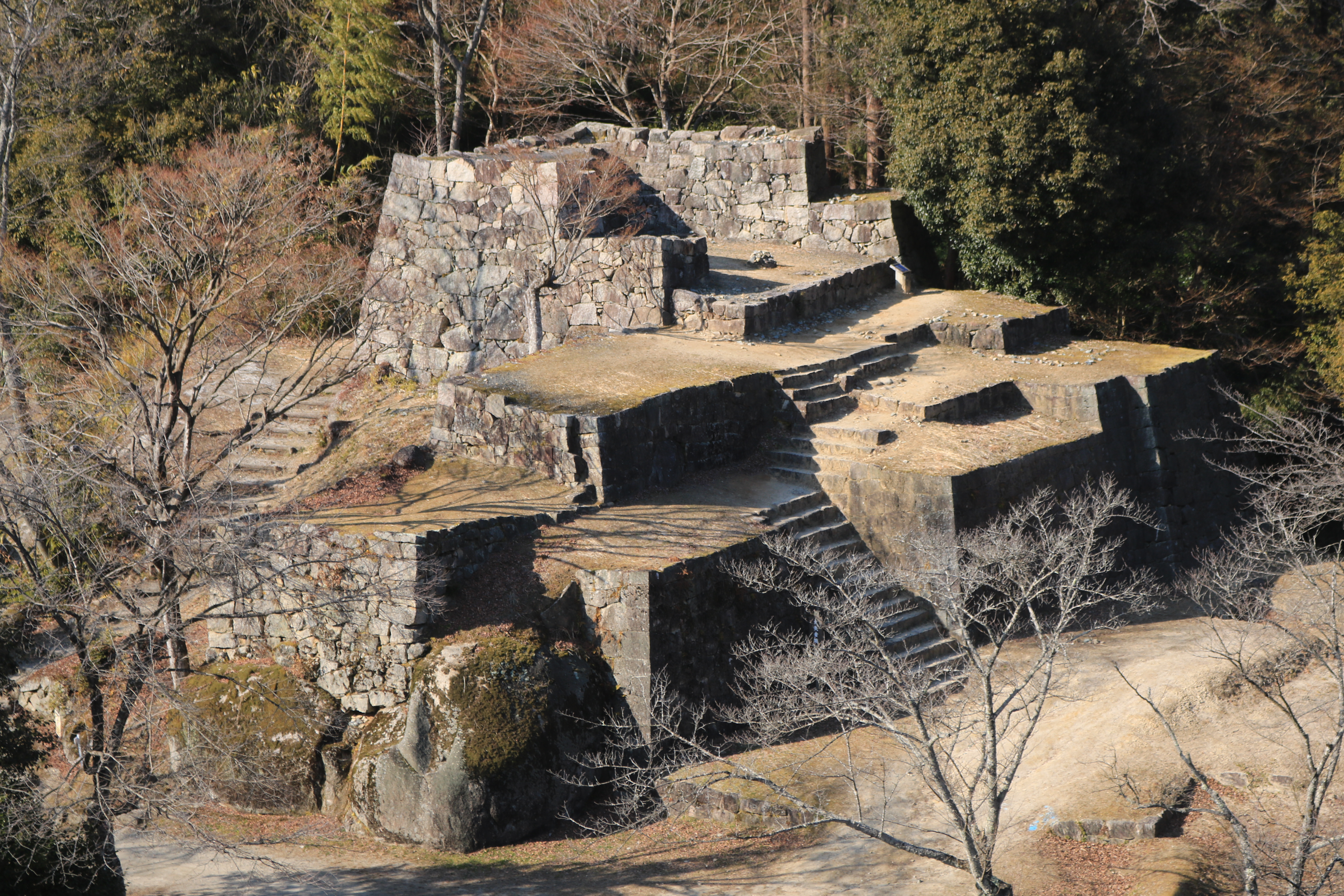 Sannomaru of Naegi Castle in Nakatsugawa, Gifu prefecture, Japan.